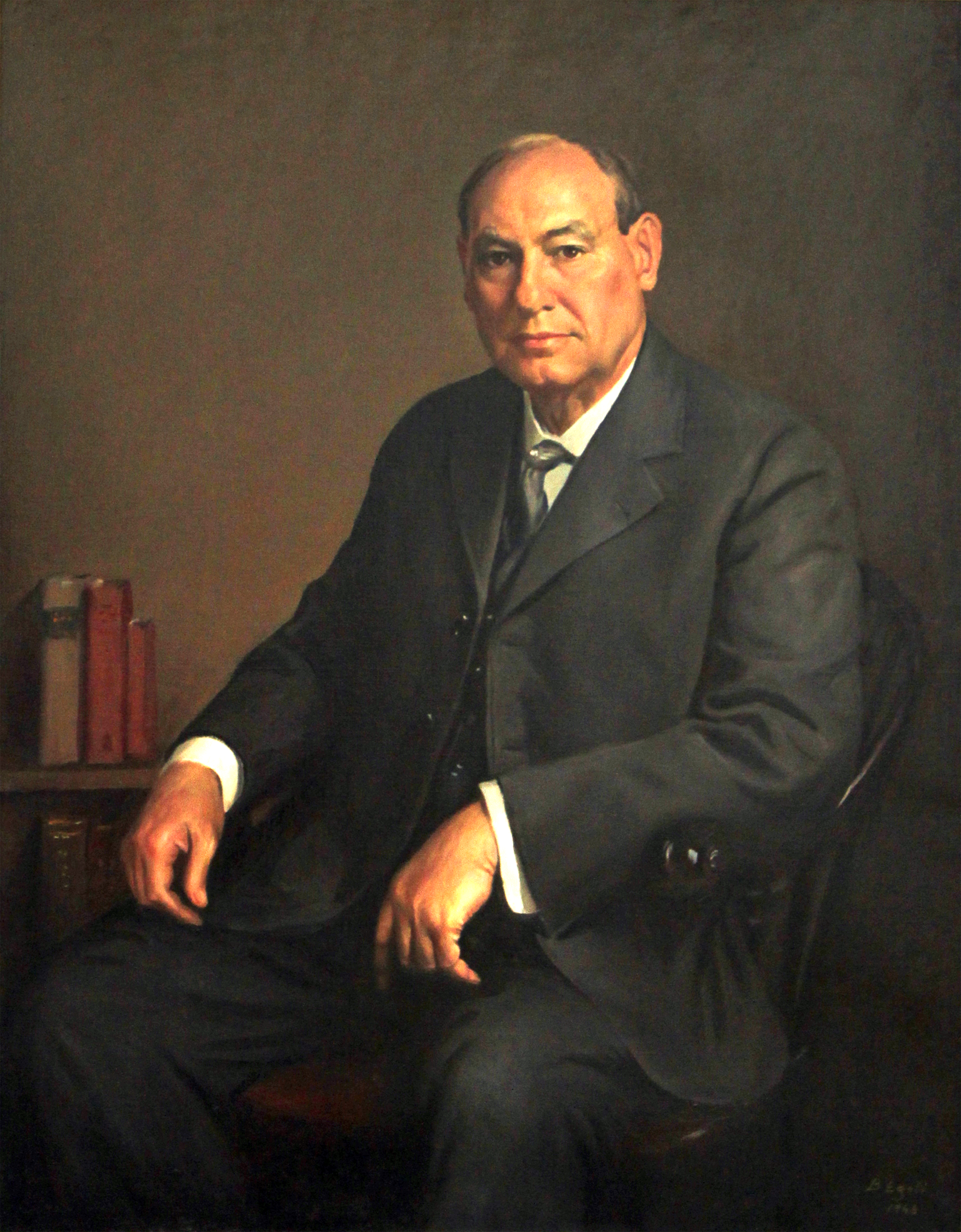 Harvey Washington Wiley (1844-1930) served as Chief Chemist of the Bureau of Chemistry of the U. S. Department of Agriculture from 1883 to 1912. He led the way in securing the 1906 Pure Food and Drugs Act. For more information about FDA history visit